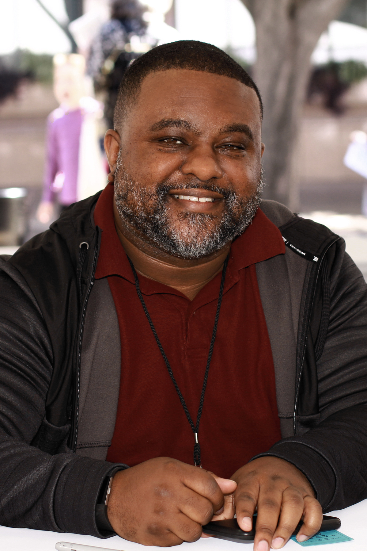 Author Lamar Giles at the 2019 Texas Book Festival in Austin, Texas, United States.